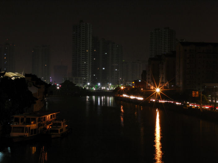 Changzhou